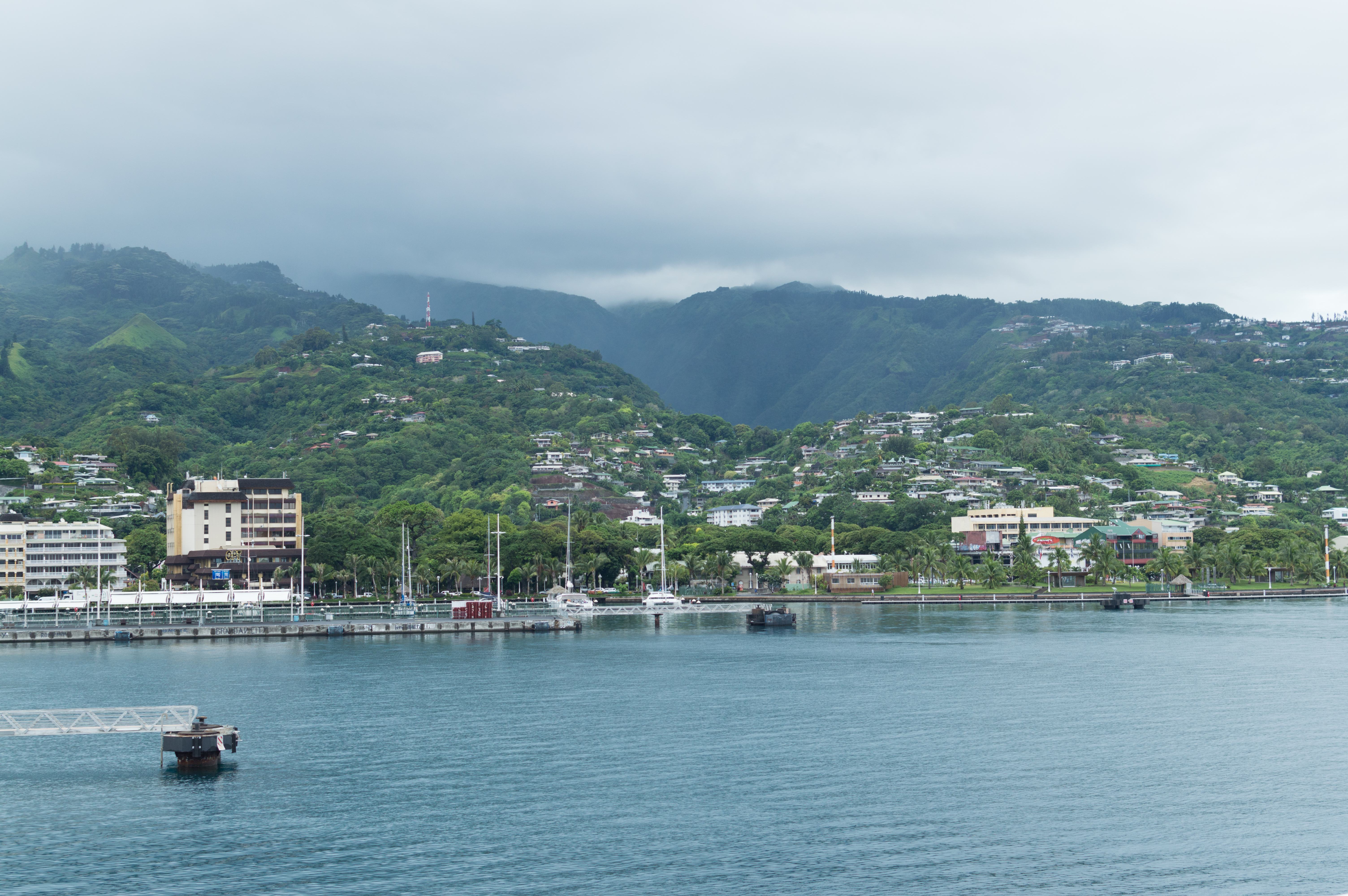 Shot of the harbour of Papeete (Tahiti, French Polynesia) and the surrounding mountains. Taken from the Aremiti ferry (the shuttle that links Tahiti to Moorea).